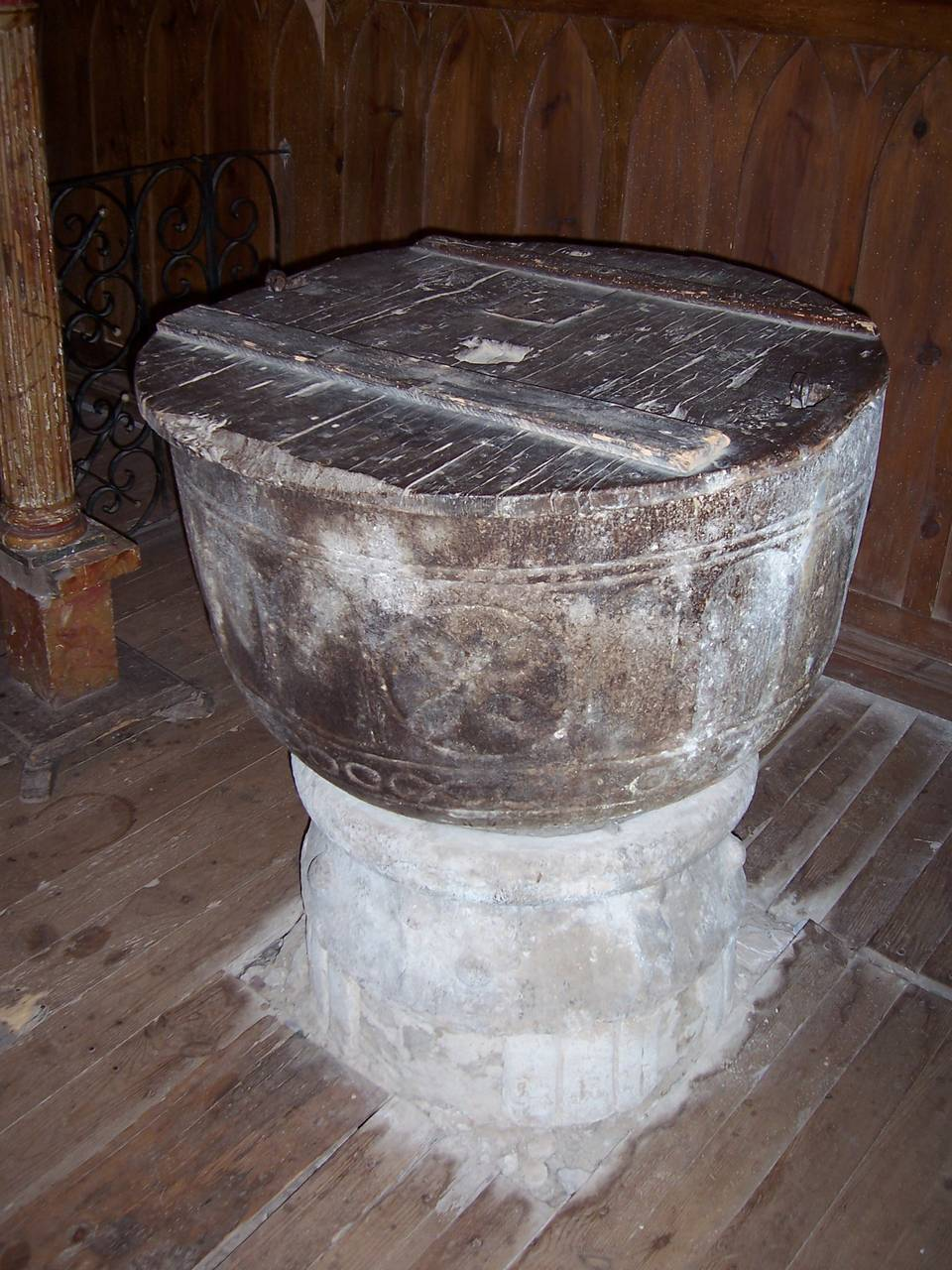 Baptismal font in church of Laguna de Cameros in La Rioja (Spain)